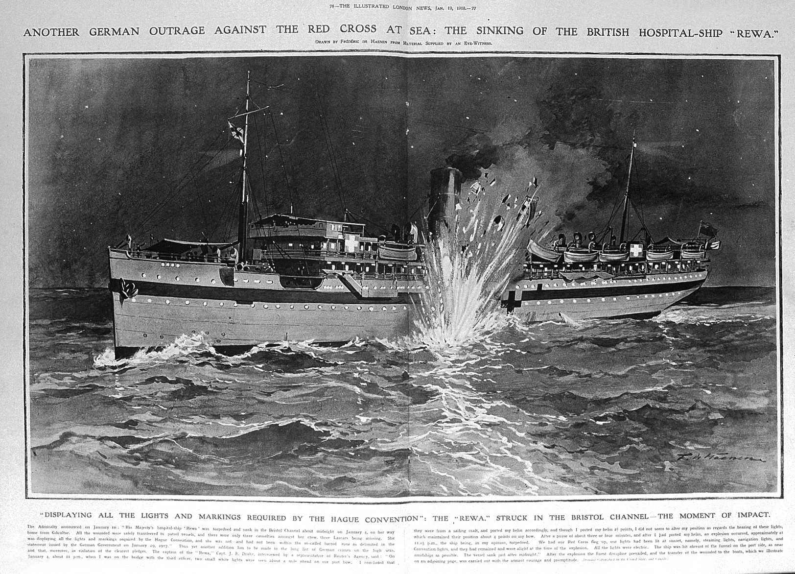 The sinking of the British Hospital Ship "Rewa". General Collections Keywords: naval and military, 20th century